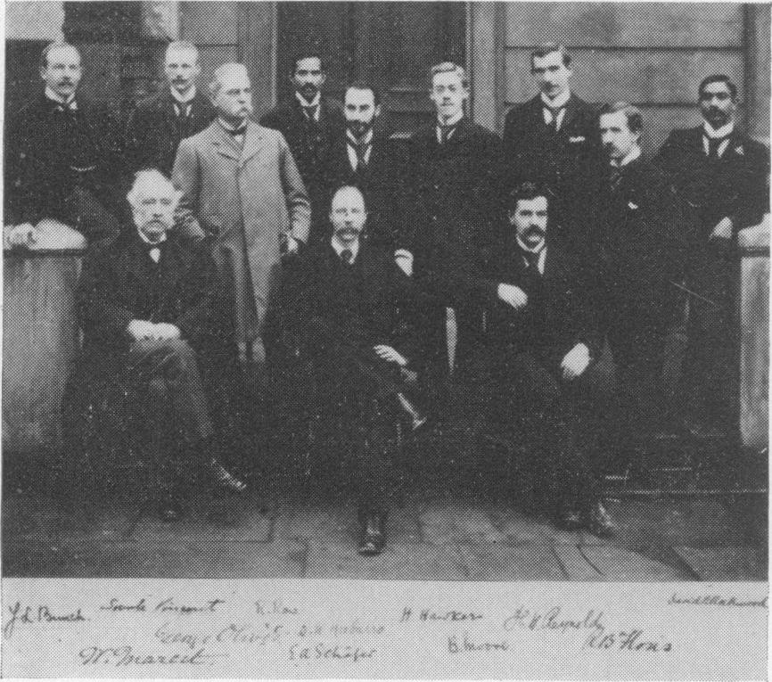 Members of University Collge London around 1895 with Edward Albert Sharpey-Schäfer and George Oliver